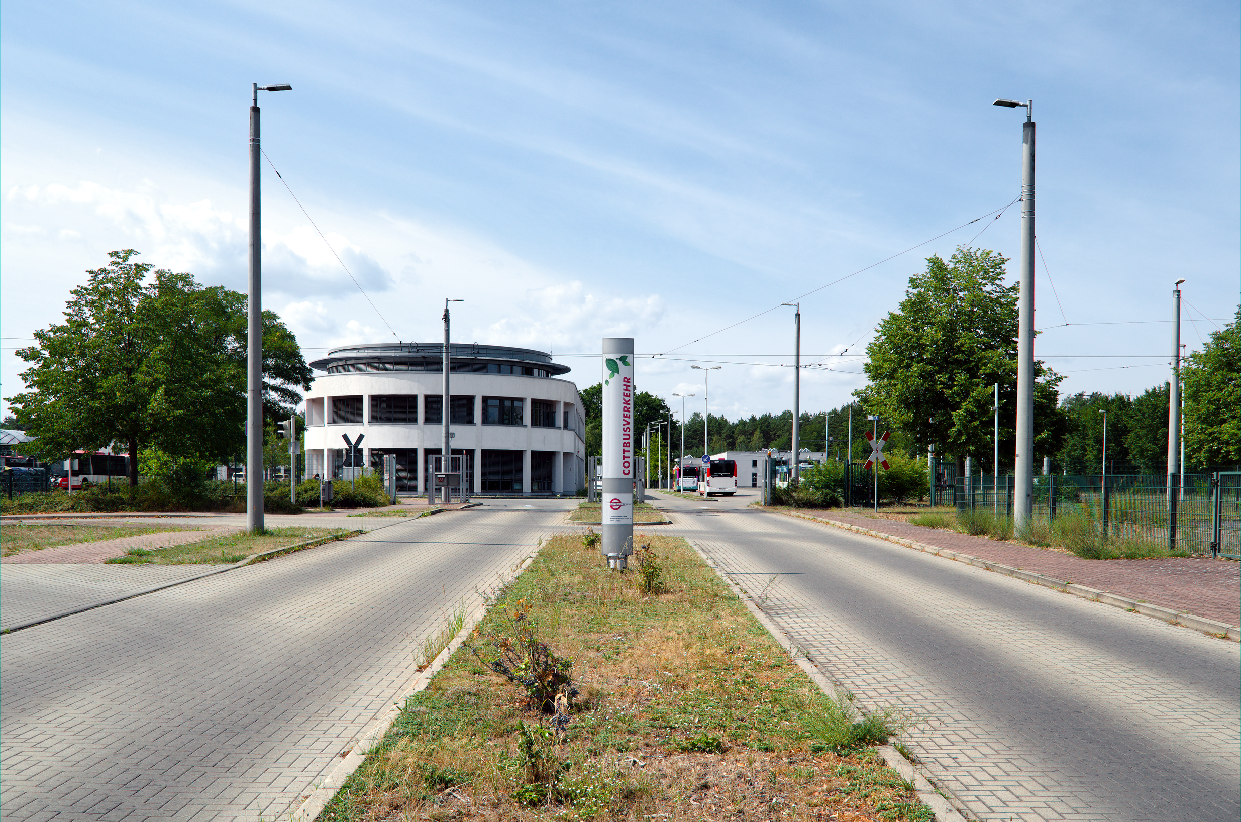 Main entrance for buses, maintenance vehicles and visitors. The round building houses the dispatcher's office among other things.